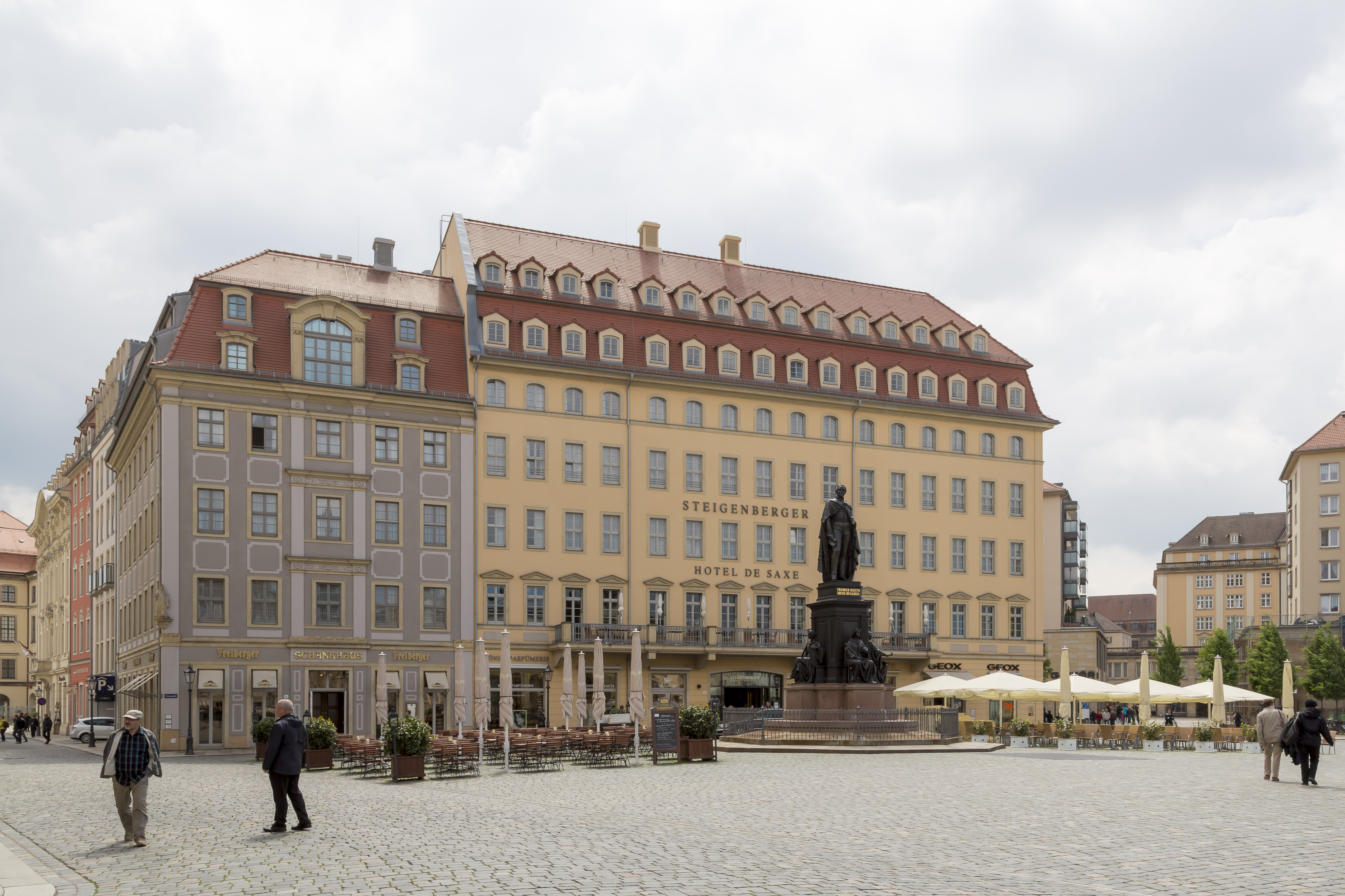 Dresden, Germany: Neumarkt with Hôtel de Saxe and the sculpture of Frederick Augustus II of Saxony